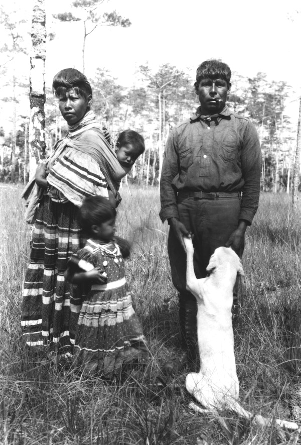 Title: "Seminole Josie Billie with family and dog" Personal Author: Small, John Kunkel, 1869-1938. Date: Photographed in the Big Cypress Swamp, Florida, near Deep Lake. April 1921. Date: 1921. Physical descrip: 1 nitrate photonegative: b&w; 7 x 5 in. Series Title: (J.K. Small collection.) Repository: State Library and Archives of Florida, 500 S. Bronough St., Tallahassee, FL 32399-0250 USA. Contact: 850.245.6700. Persistent URL: Additional information from World Digital Library: "This photograph, taken in the Big Cypress Swamp in Florida near Deep Lake in April 1921, depicts Josie Billie and his family. Born on December 12, 1887, Billie was the son of the first Indian to receive a formal education in Florida. A Seminole medicine man and long-time public spokesman for the Florida Seminoles, Billie was also a Baptist minister. He was a frequent participant in the Florida Folk Festival and lived on the Big Cypress Seminole Indian Reservation in Hendry County until his death in 1980. The image is from the collection of John Kunkel Small, a prominent American botanist associated with the New York Botanical Garden who specialized in the plant life of the American Southeast and documented environmental degradation in the Everglades."